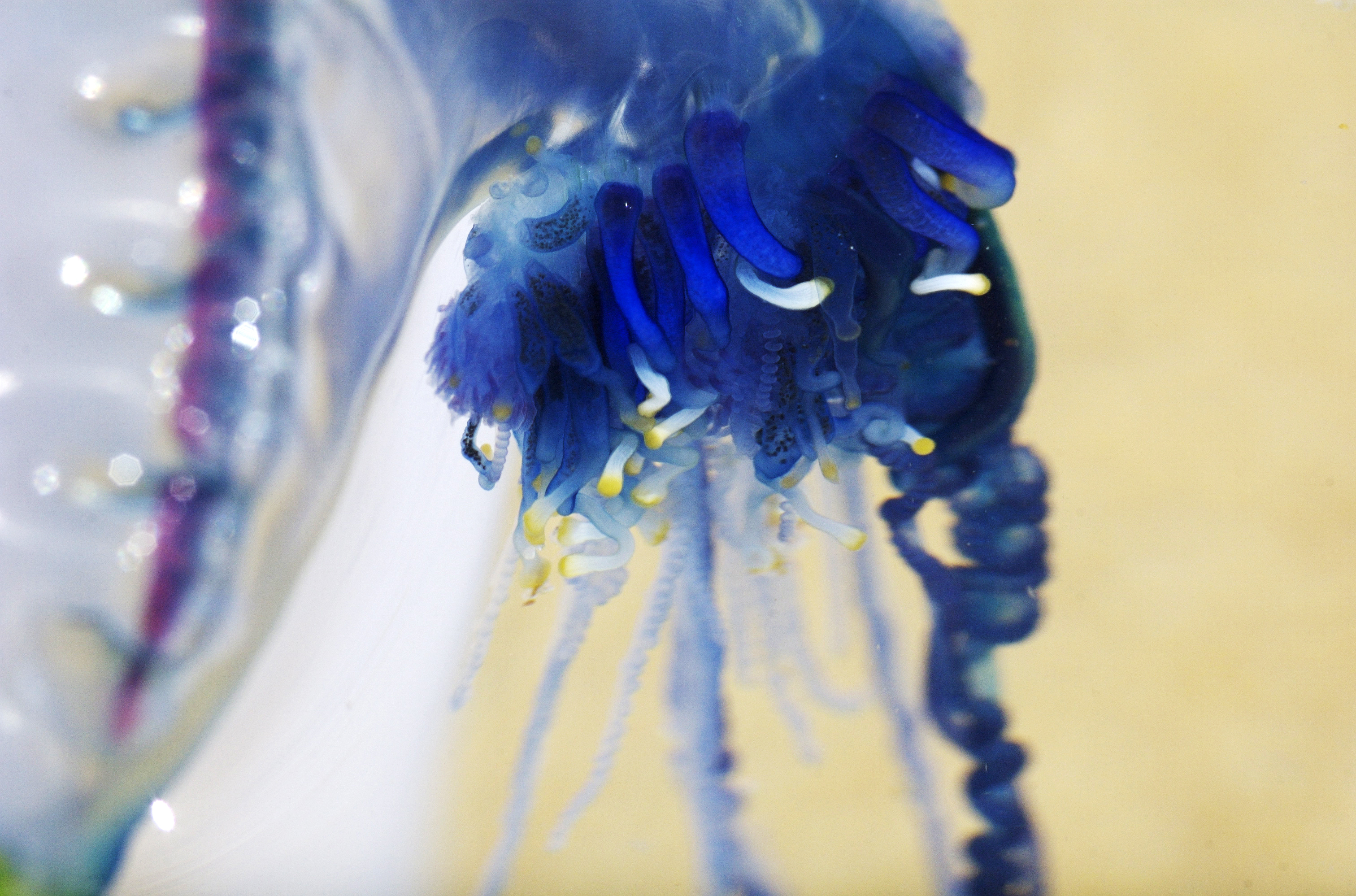 Close-up siphonosome of Portuguese Man o' War (Physalia physalis).